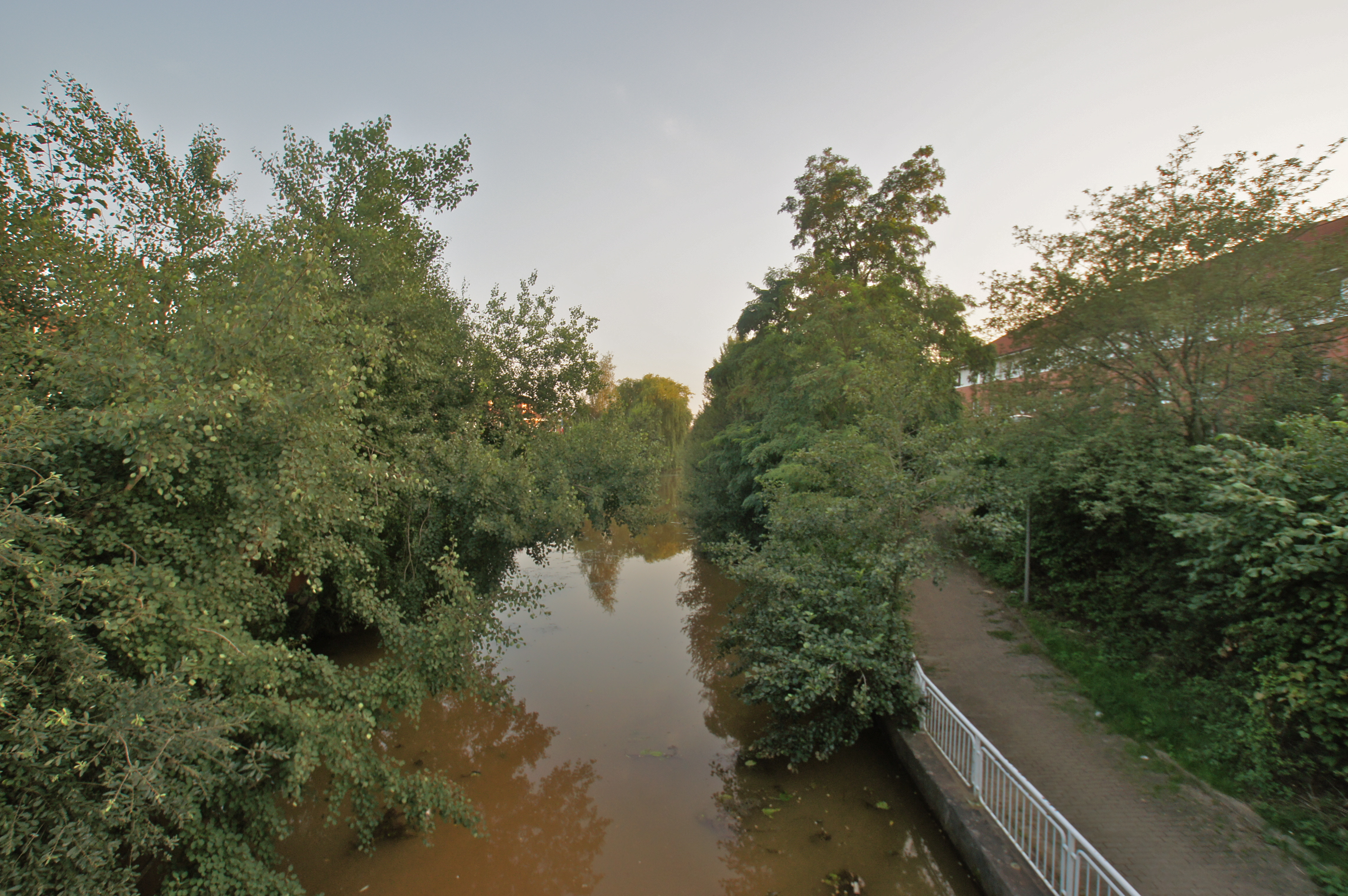 Hamburg (Neuallermöhe), Germany: The canal Annenfleet in southern direction